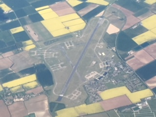 An aerial view of RAF Scampton, May 2017.